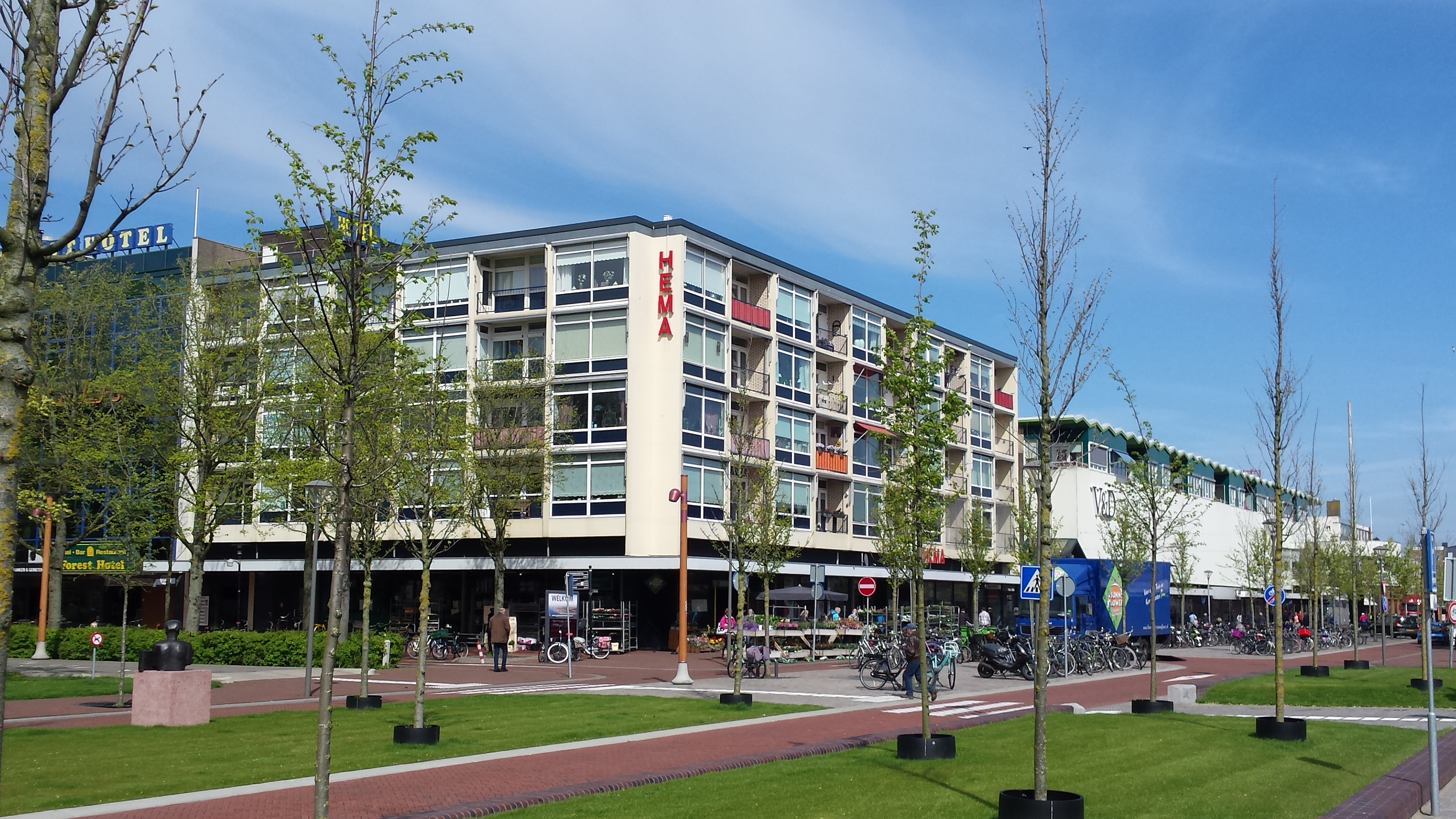 HEMA building in Den Helder